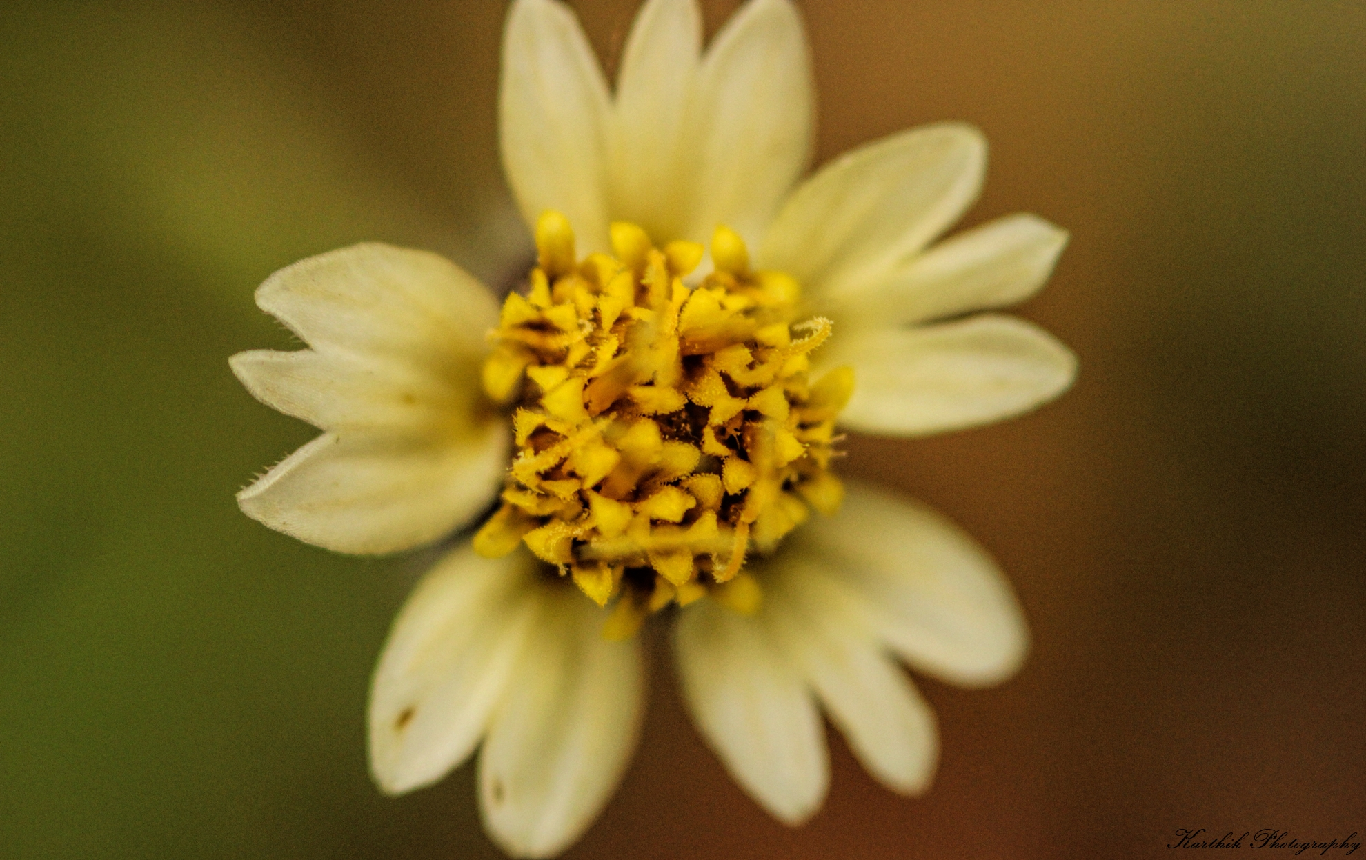 This was taken in garden